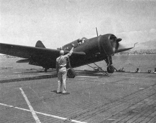 A Curtiss SB2C-5 Helldiver is about to be catapulted from the U.S. Navy escort carrier USS Sicily (CVE-118) off Piraeus, Greece in August 1949. Sicily loaded 42 Helldivers at Naval Station Norfolk, Virginia (USA) for delivery to the Hellenic Air Force and left Norfolk on 31 July. Most of the planes were catapulted from the carrier and flown ashore by crews from the Sicily due to unusally bad weather and limited port facilities at Piraeus.